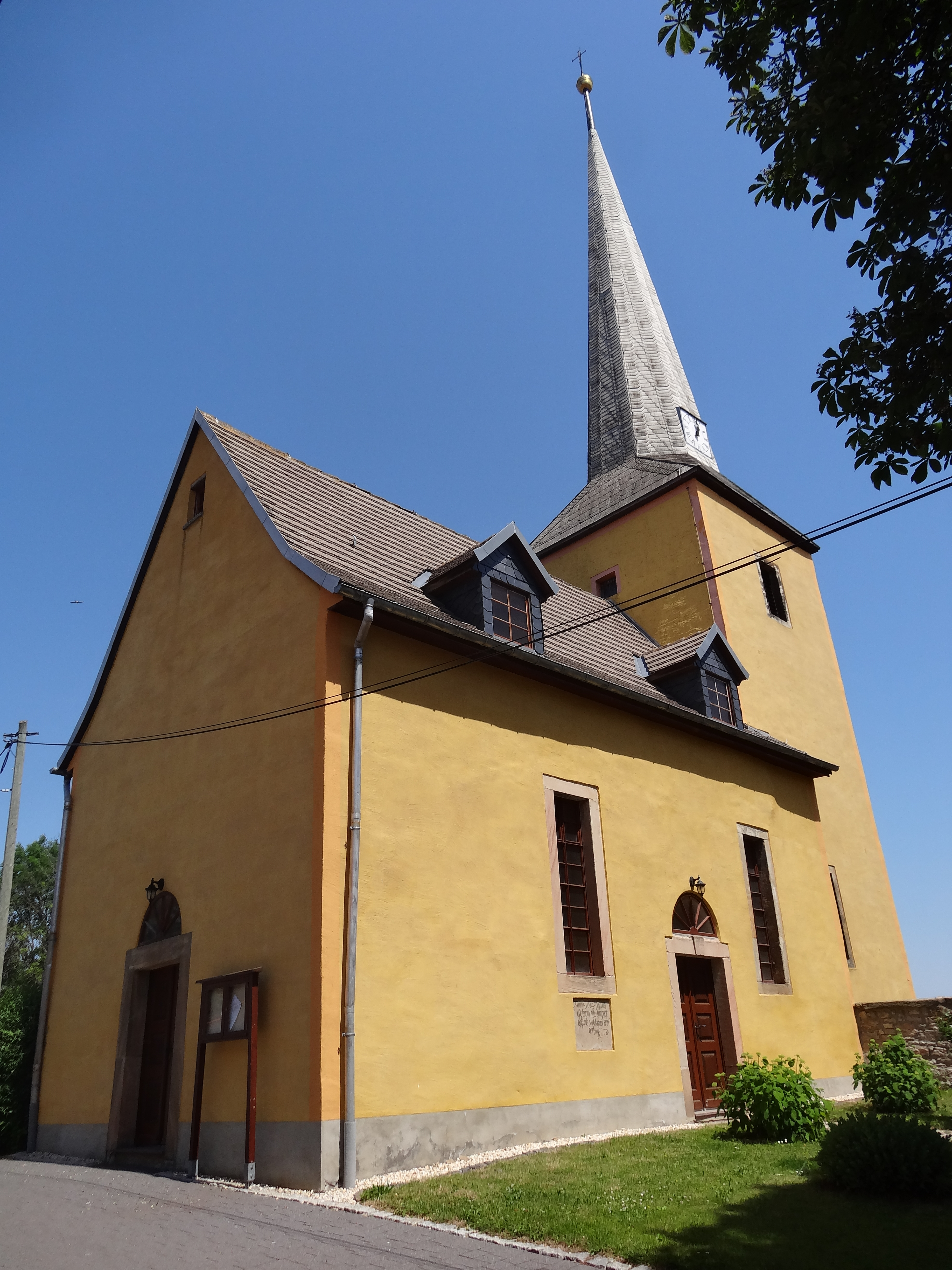 Church of Ködderitzsch, Thuringia, Germany